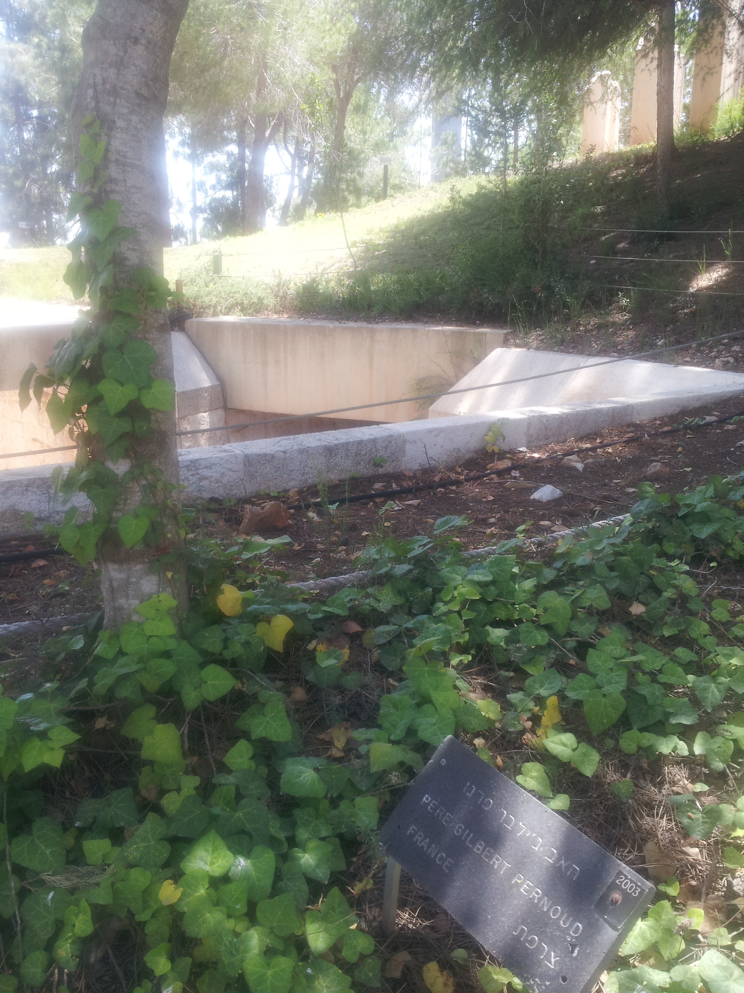 Righteous Among the nations Gilbert Pernoud tree at Yad Vashem